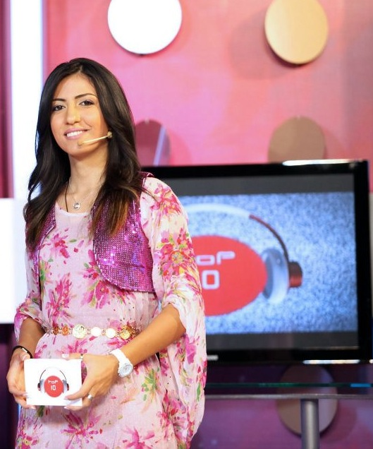 Sama Dizayee wearing the Kurdish outfit on her show Top 10 on Alsumaria Satellite Channel